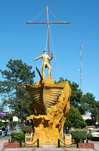 San Martin´s Monument